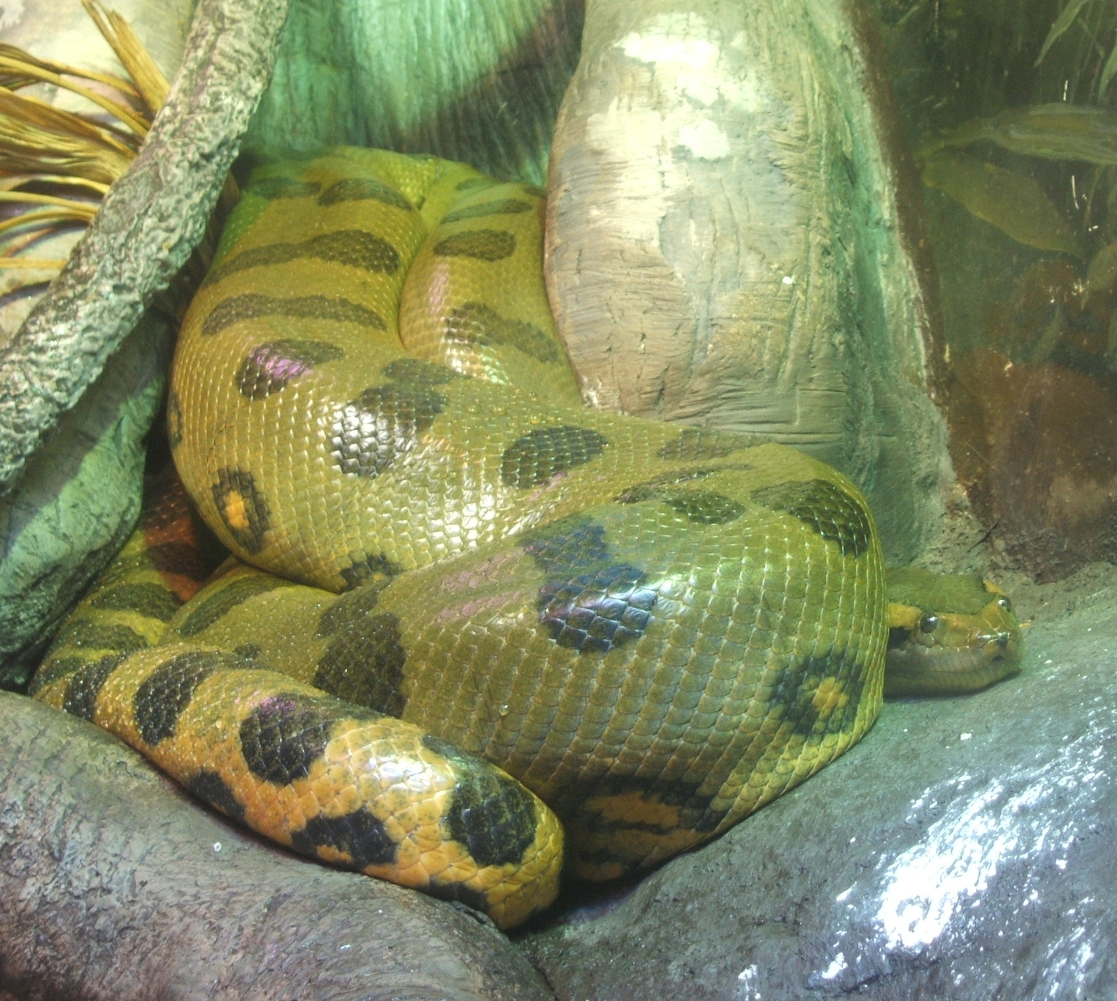 Green anaconda (Eunectes murinus) named Kathleen (or maybe Ashley it is hard to tell with anacondas. It's not like they are your babies or something, although we are quite attached to them). Taken at the New England Aquarium (Boston, MA, December 2006. Copyright © 2006 Steven G. Johnson and donated to Wikipedia under GFDL and CC-by-SA. It might be called Elsa.Babies are irrelevant. Or it might be called something silly like Nong Nong.